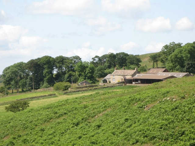 Alloa Lea Photo taken from south of Hadrian's Wall in NY6966.